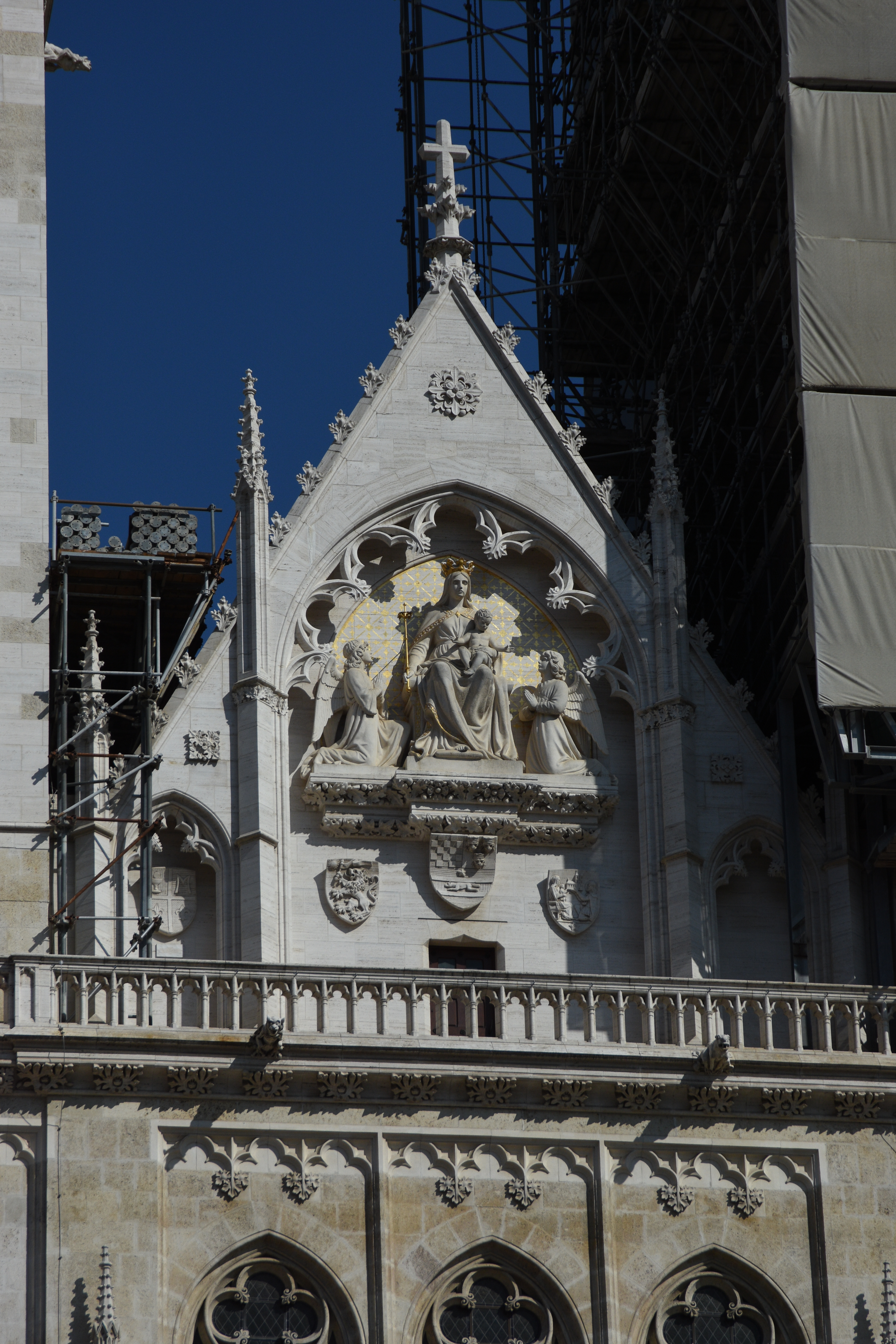 Facade of the Cathedral of Zagreb